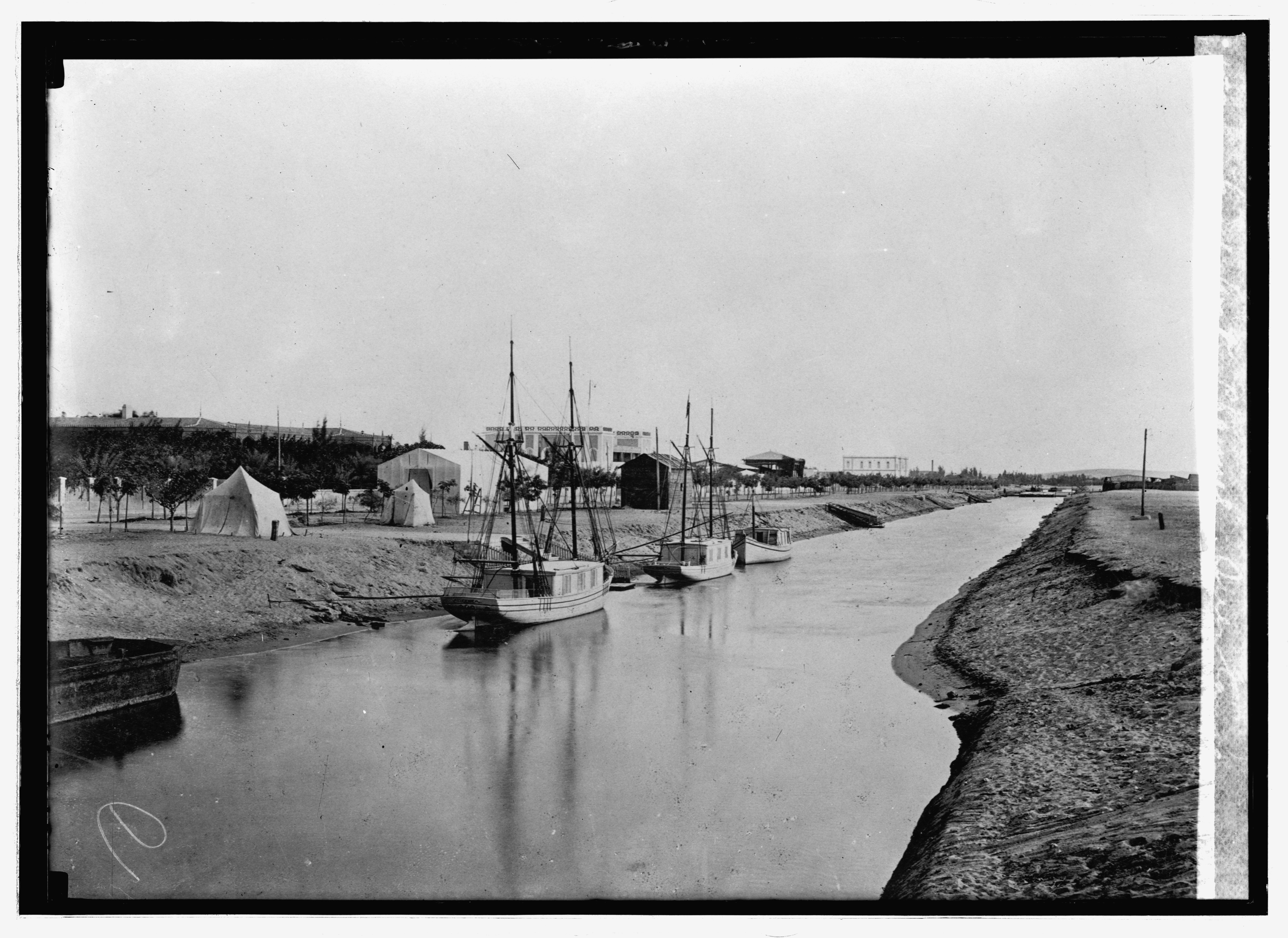 Title: Fresh water channel, Suez Canal Abstract/medium: 1 negative : glass ; 5 x 7 in. or smaller